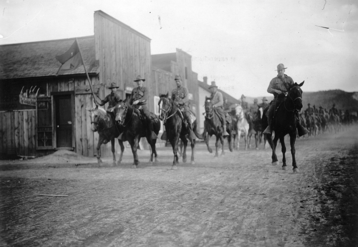 Lieutenant Karl E. "Monte" Linderfelt and members of the Colorado National Guard, called in to suppress the UMW strike against CF&I, ride on horseback, probably in Ludlow, Las Animas County, Colorado at the time of the Ludlow massacre. One man carries a two tone flag that reads: "A".